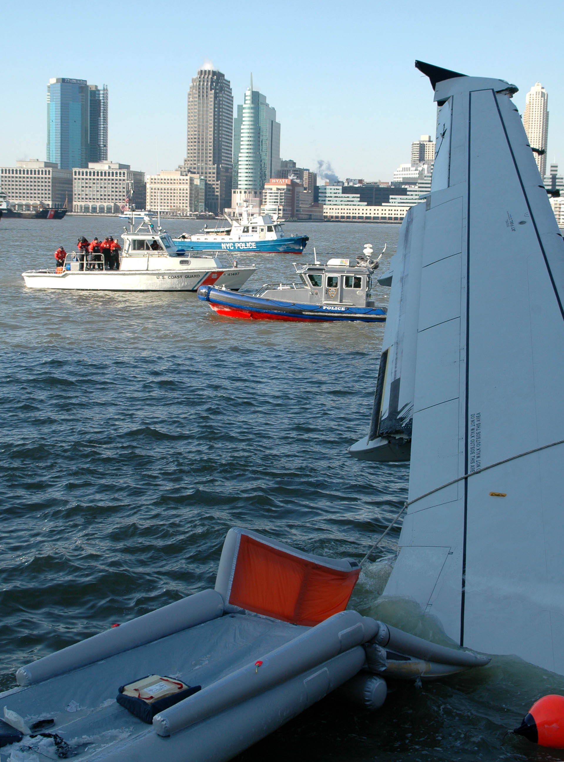 Rescue boat crews from Coast Guard Station New York and the New York Police Department enforce a security zone around the partially submerged US Airways Flight 1549 airplane, in the Hudson River next to Battery Park City on Jan. 16, 2009.